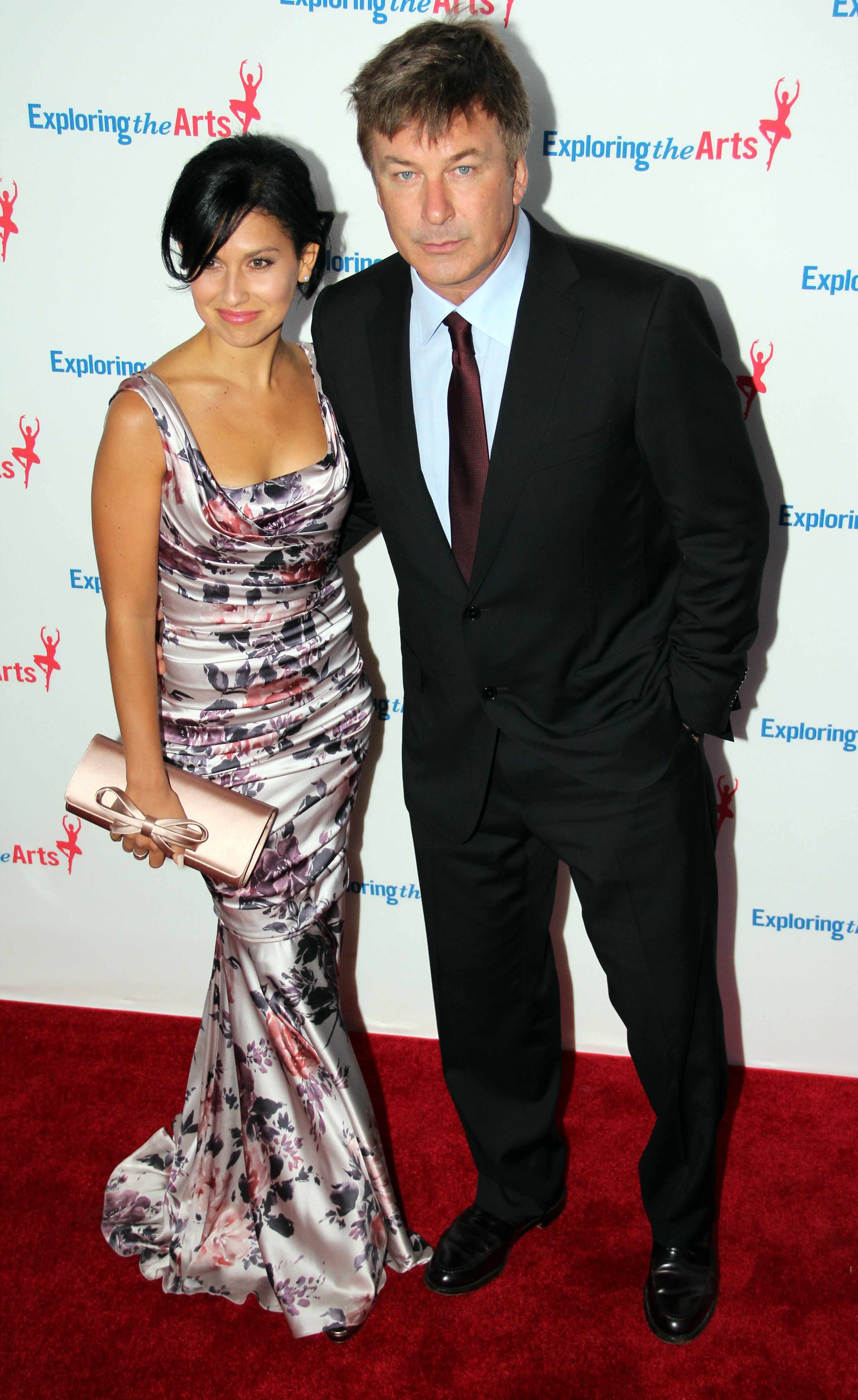 Alec Baldwin and Hilaria Thomas at the Tony Bennet Birthday Gala 2011.